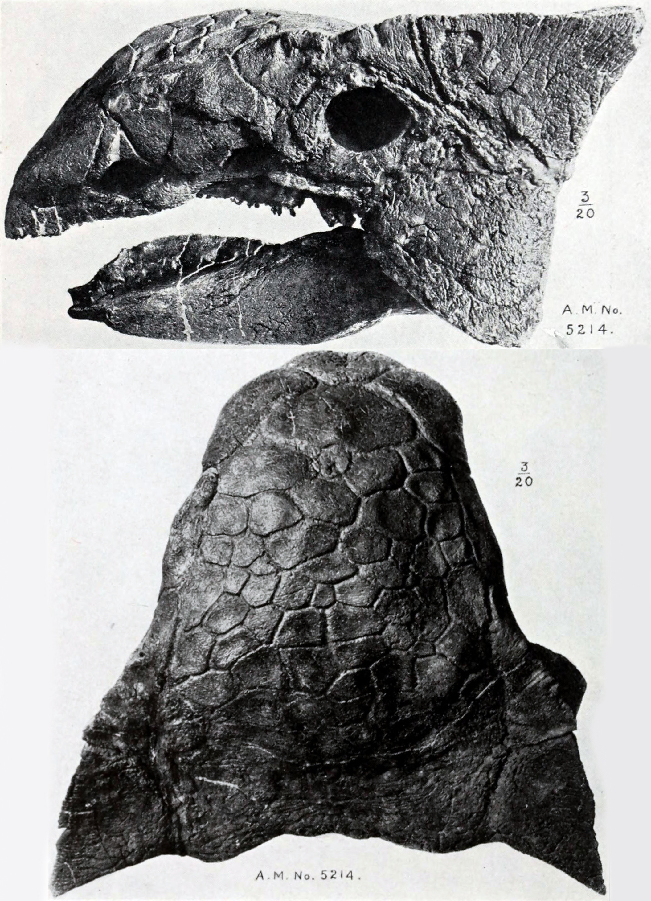 Skull of Ankylosaurus, an armoured ornithischian dinosaur of the late Cretaceous of North America. This specimen (AMNH 5214) is from the Edmonton formation of Alberta.